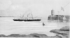 Castletown Steam Navigation Company vpaddlesteamer Ellan Vannin, entering Castletown Harbour, Isle of Man.